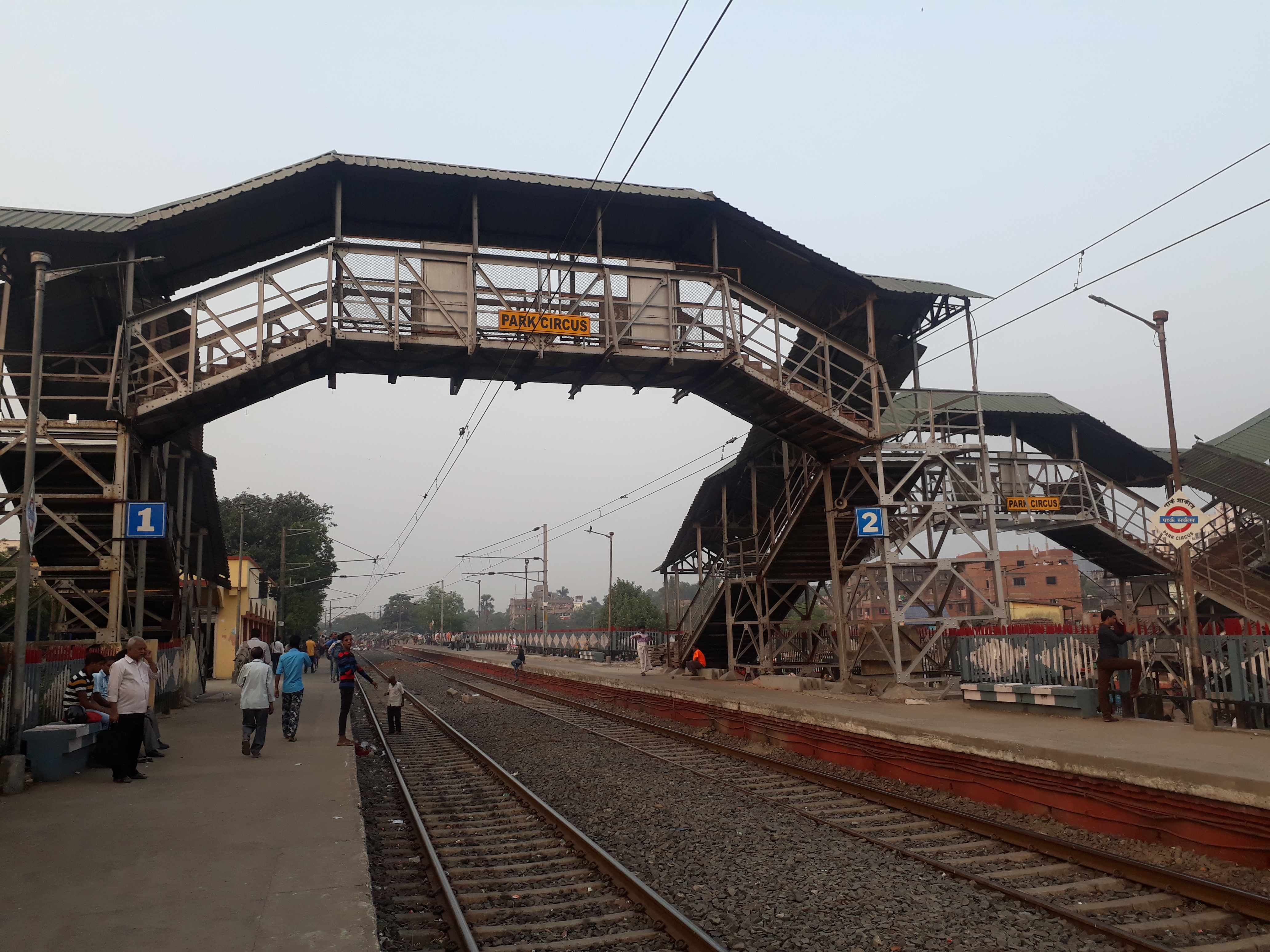 Park circus railway station in Sealda South section